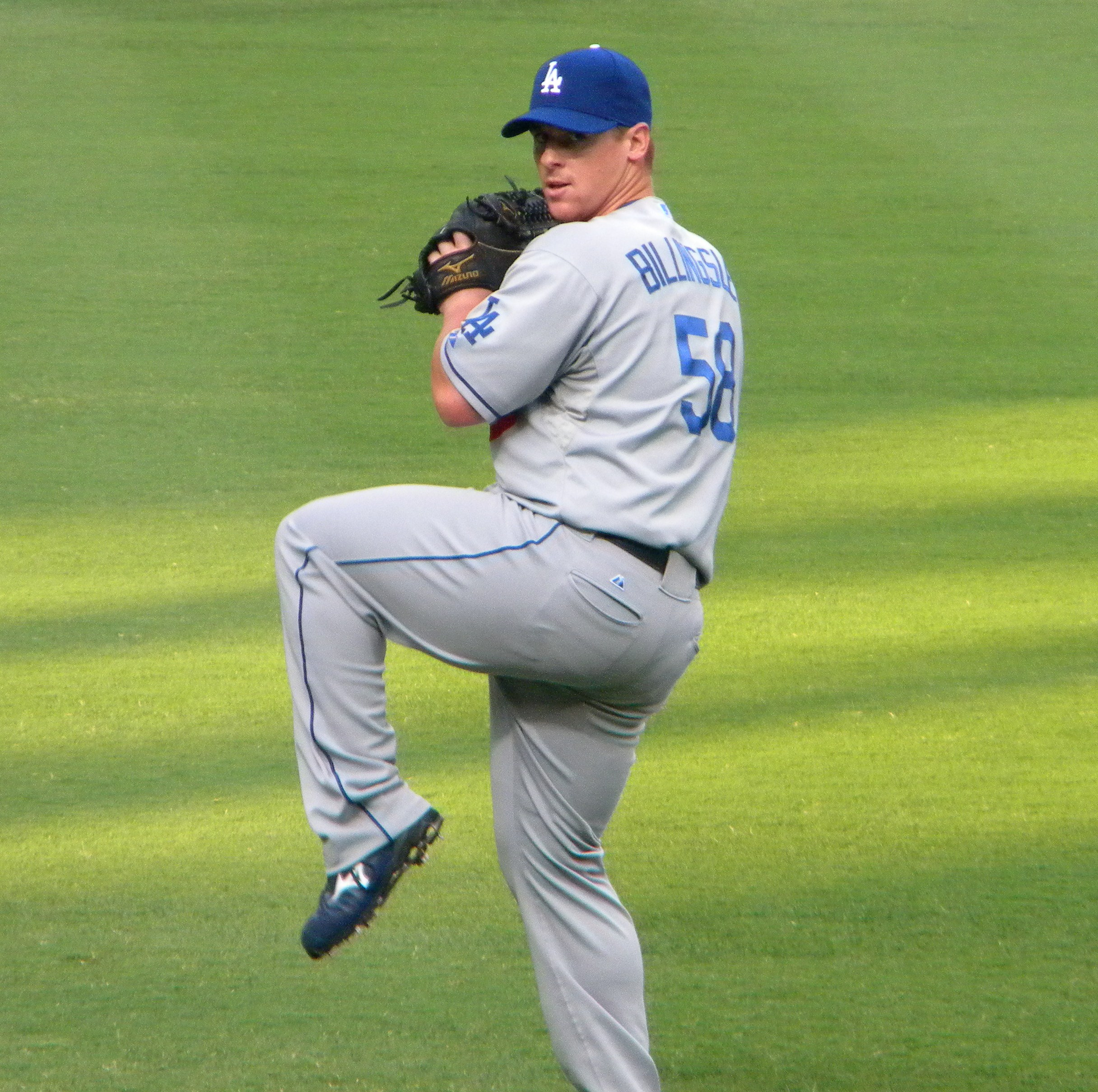 A picture taken of Chad Billingsley warming up before a game against the Atlanta Braves on August 3, 2009.